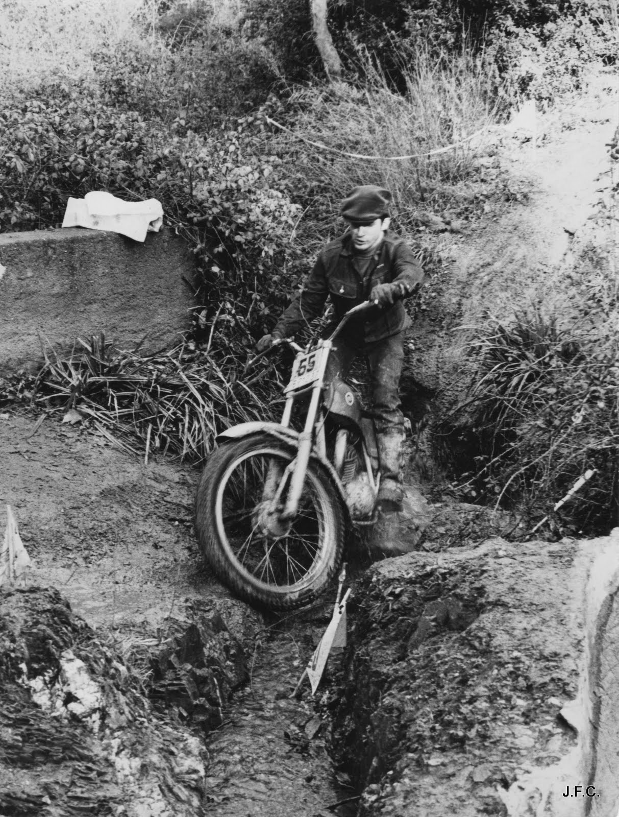 Joan Font on his Montesa Cota 247 at the 1970 Trial de Reis, near from Barcelona (Catalonia)